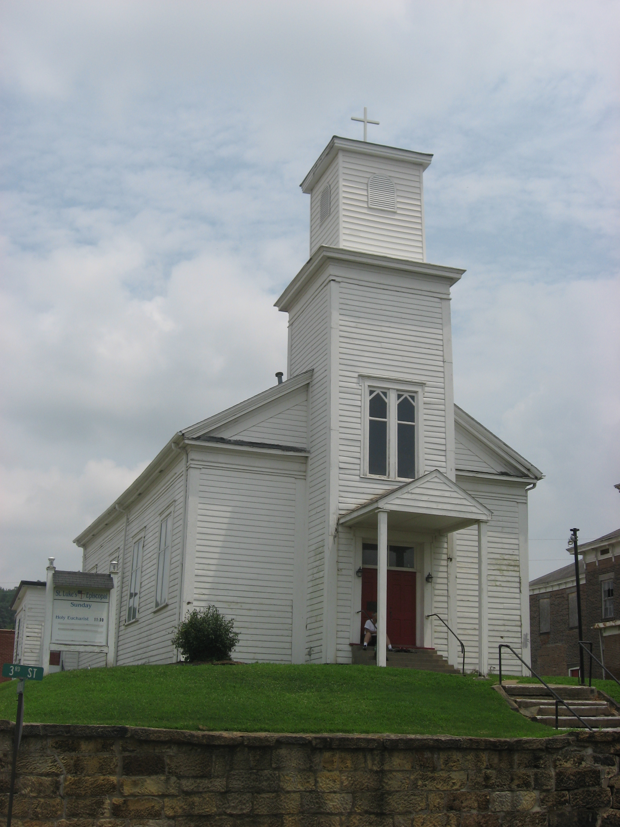 Front and northern side of St. Luke's Episcopal Church, located on the eastern corner of the junction of Third and Washington Streets in Cannelton, Indiana, United States. Built in 1845, it is Perry County's oldest church building; it is listed on the National Register of Historic Places, and it is part of a Register-listed historic district, the Cannelton Historic District.